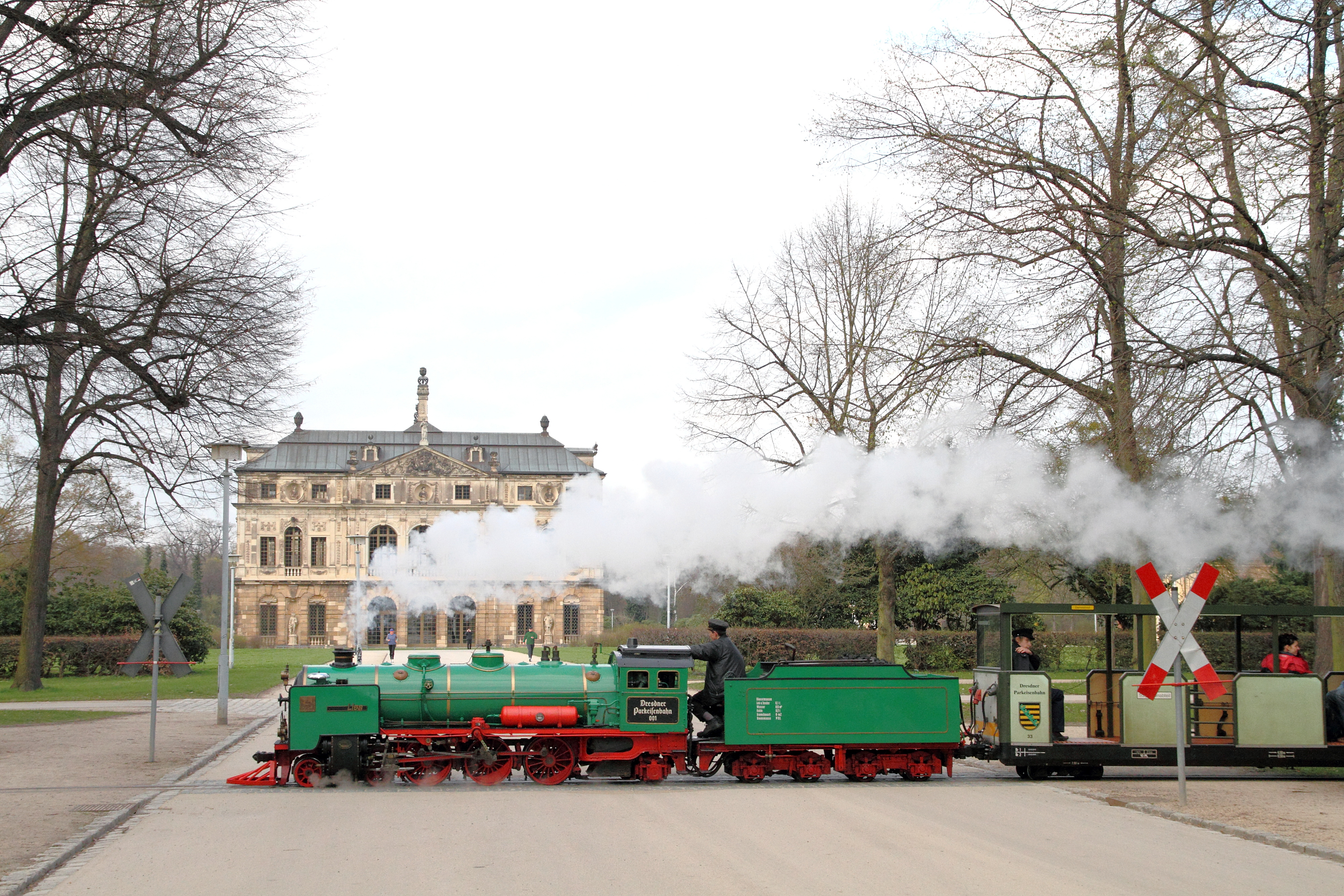 Dresden Parkeisenbahn train with engine 1 passing the "Palais im großen Garten".